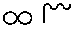 Weathersign symbols